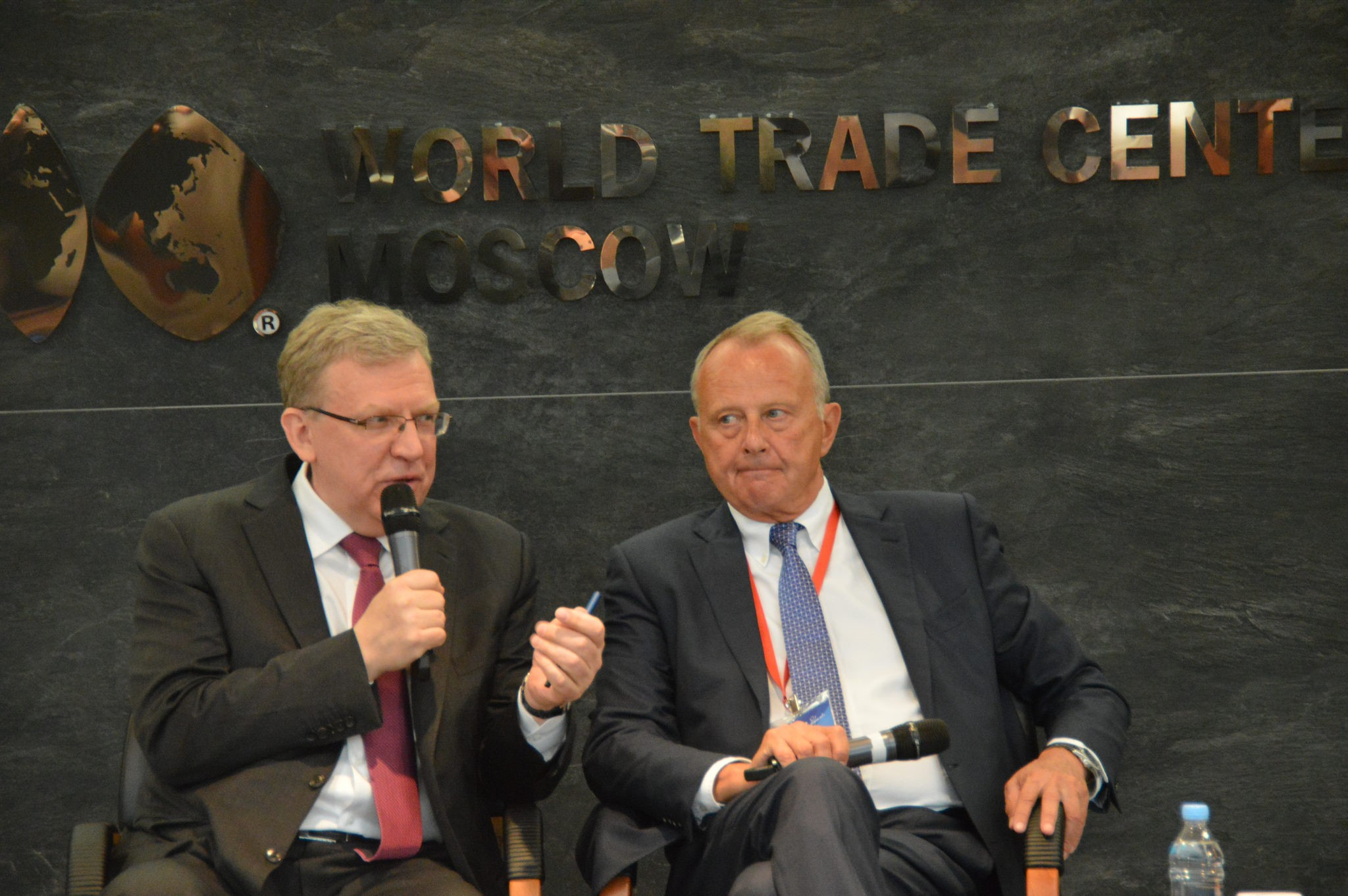 Aleksey Kudrin at Primakov Readings 2017.